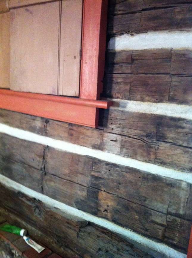 These are the actual exposed original logs from inside the oldest continuously lived in house in Toronto - John Cox Cottage